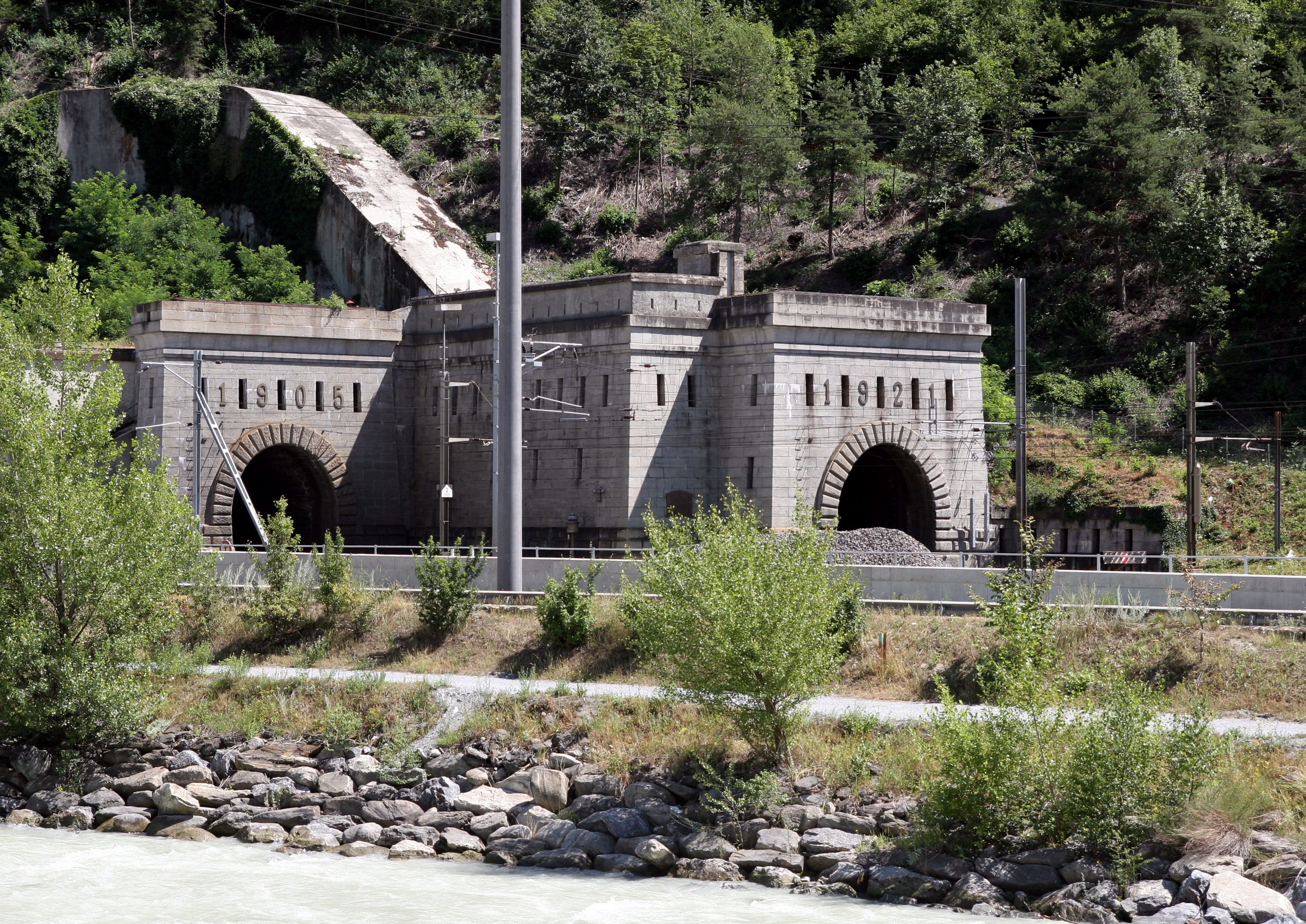 The entrance to the Simplon tunnel in Brig, Valais (Switzerland).